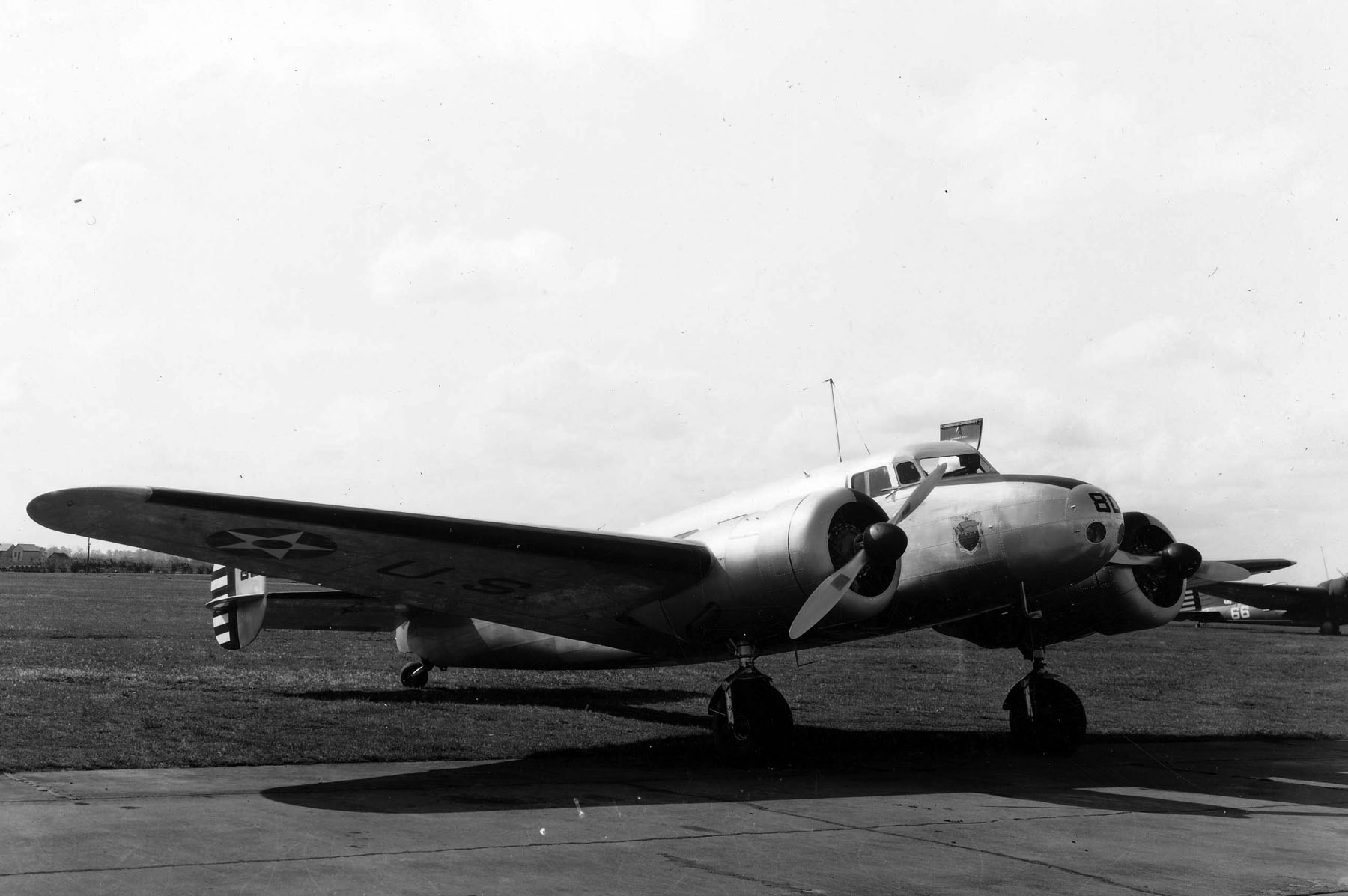 Lockheed C-36, aircraft No. 80 at Maxwell Field, Alabama, on March 27, 1939. This type was originally designated Y1C-36 and was later redesignated as UC-36. (U.S. Air Force photo)